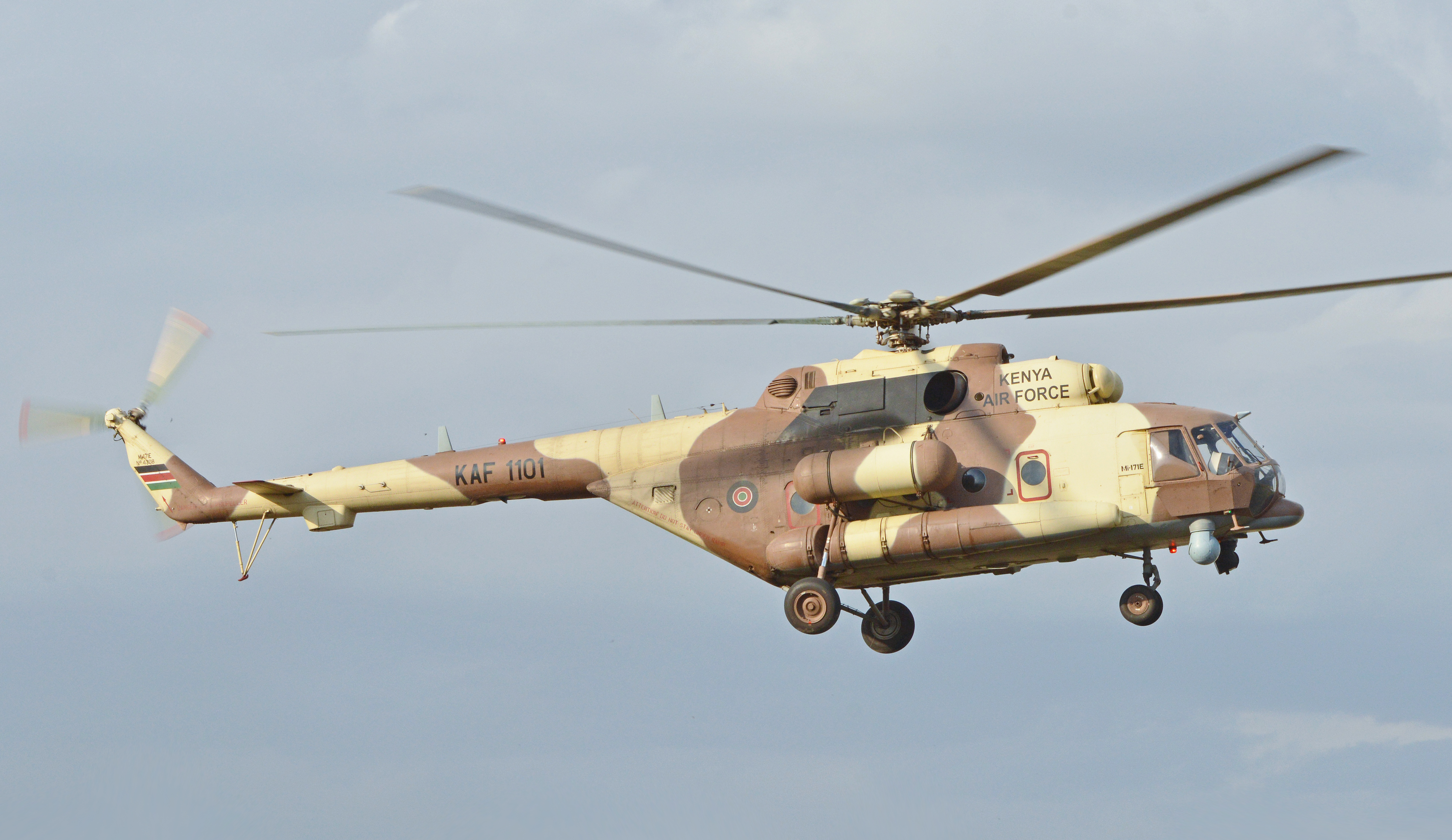 Mil Mi-171E 'KAF 1101' Kenya Air Force